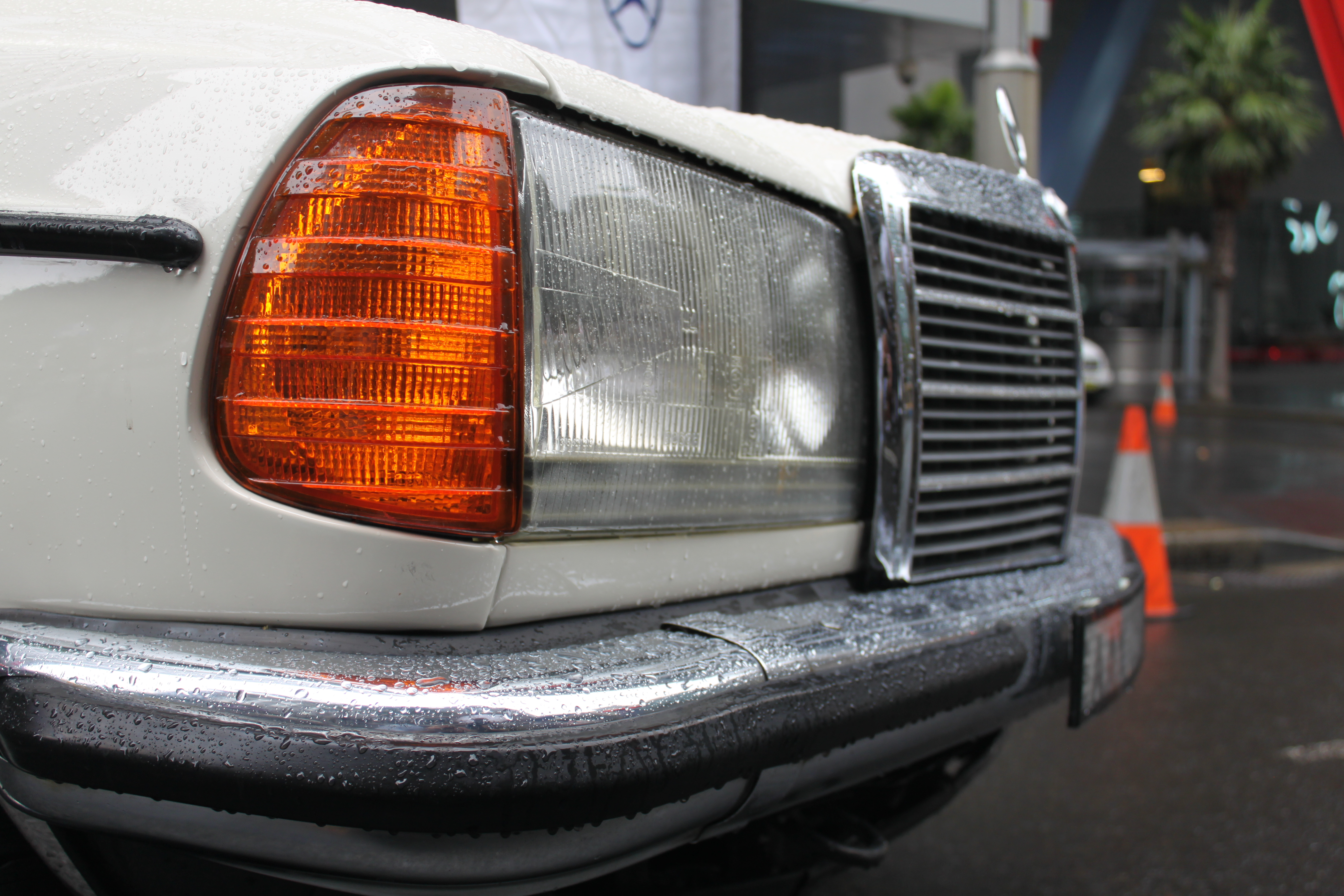 CARnivale, Australia Day, Sydney 2015